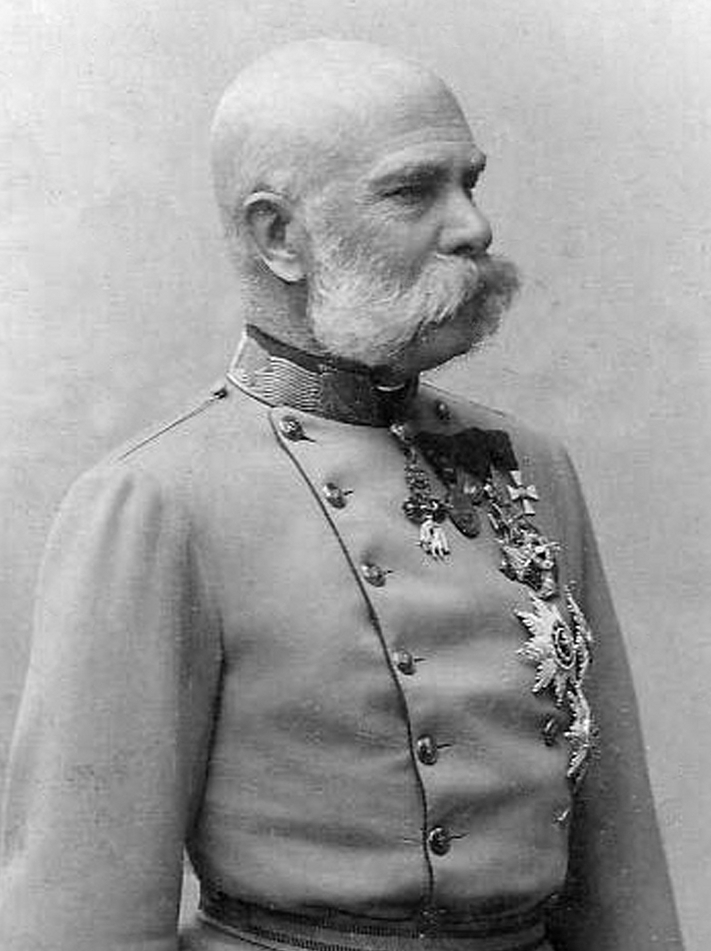 Franz Joseph I of Austria and Hungary.